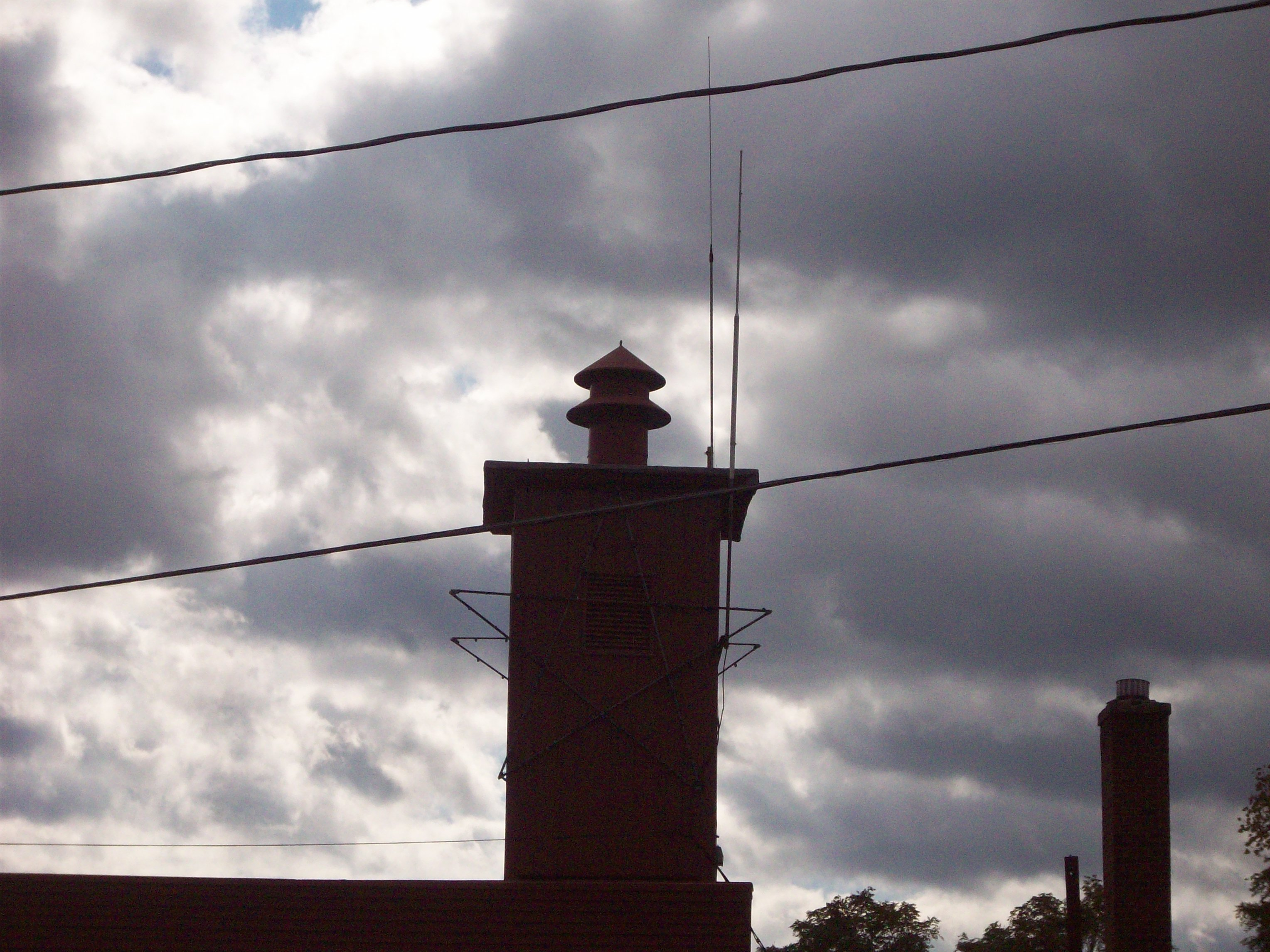 This is a picture of the Federal Signal Model 5 sitting on top of the Union Co. Fire Department in downtown Ballston Spa, NY.